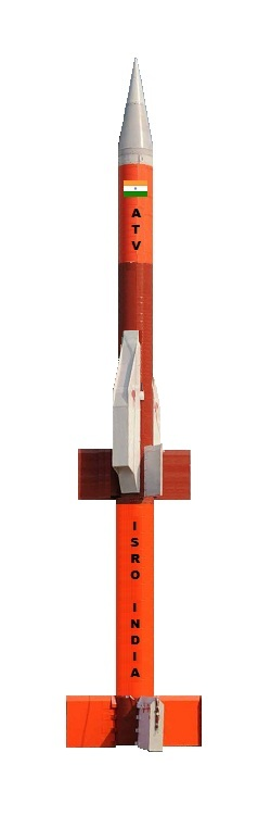 ISRO Advanced Technology Vehicle shape.